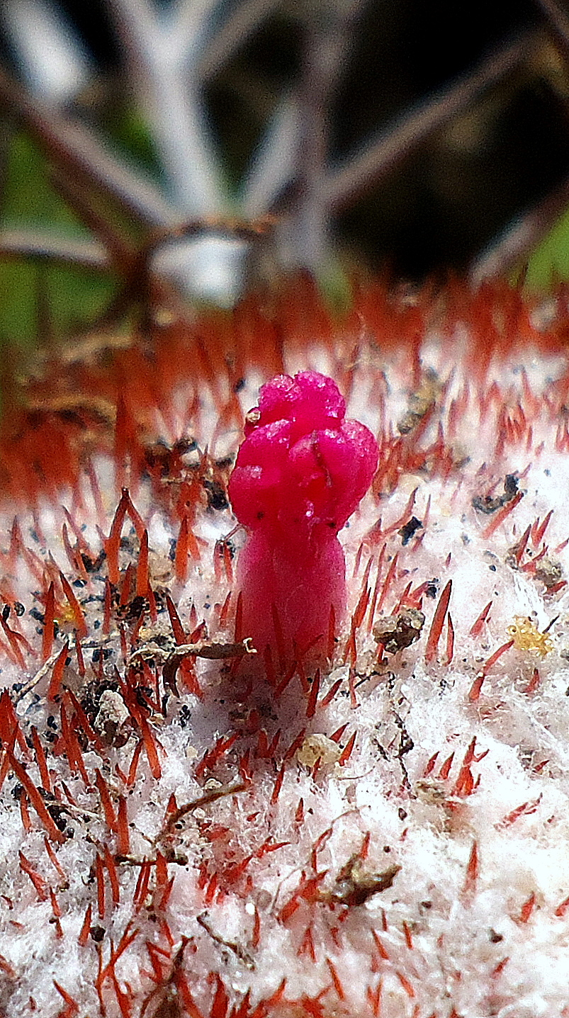 Post-anthesis.